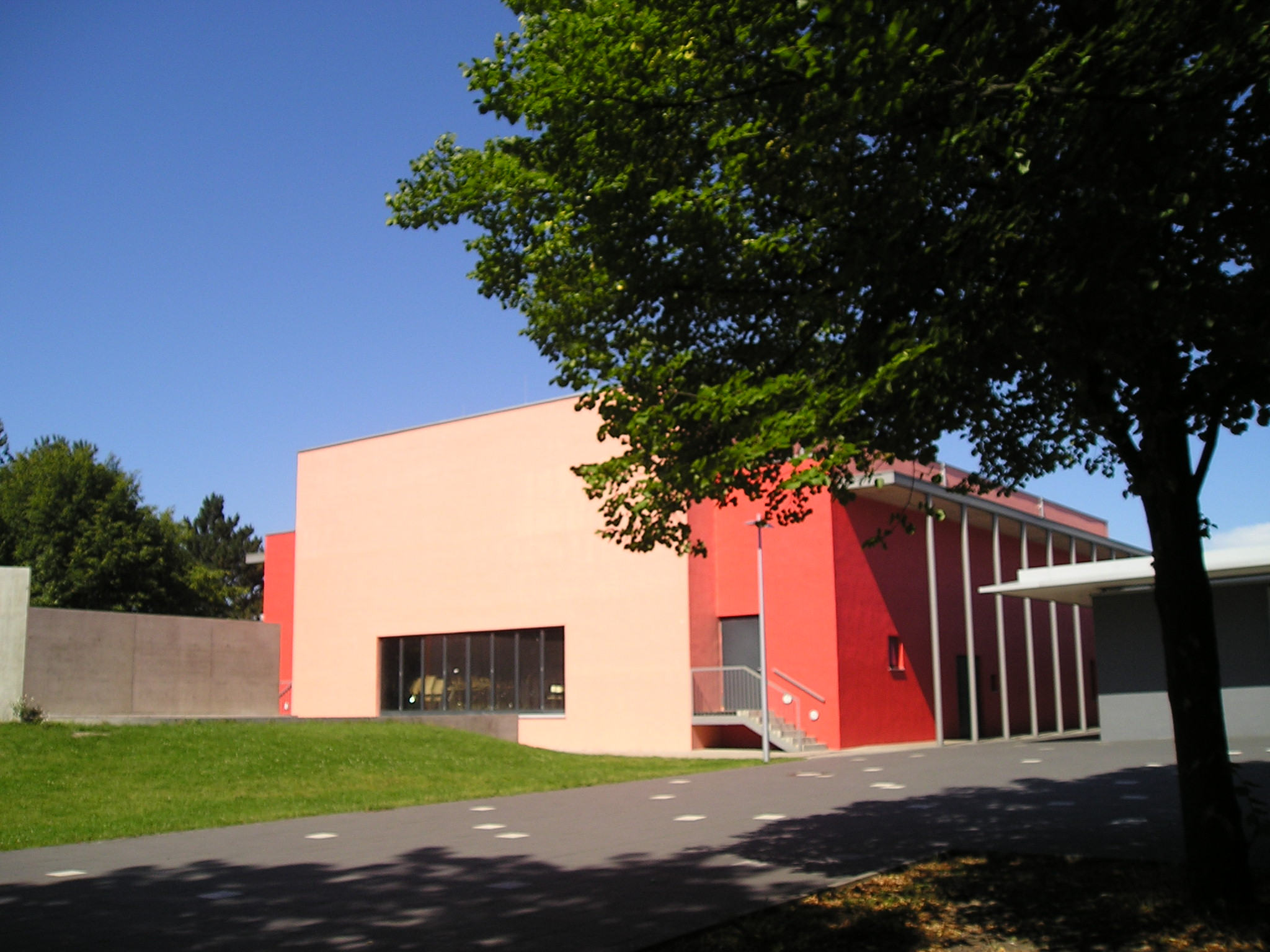 Gymnasium Koblenzer Straße Düsseldorf Aula (assembly hall)